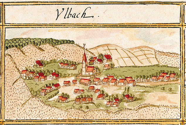 View of Uhlbach, Obertürkheim, from the forest register books created by Andreas Kieser